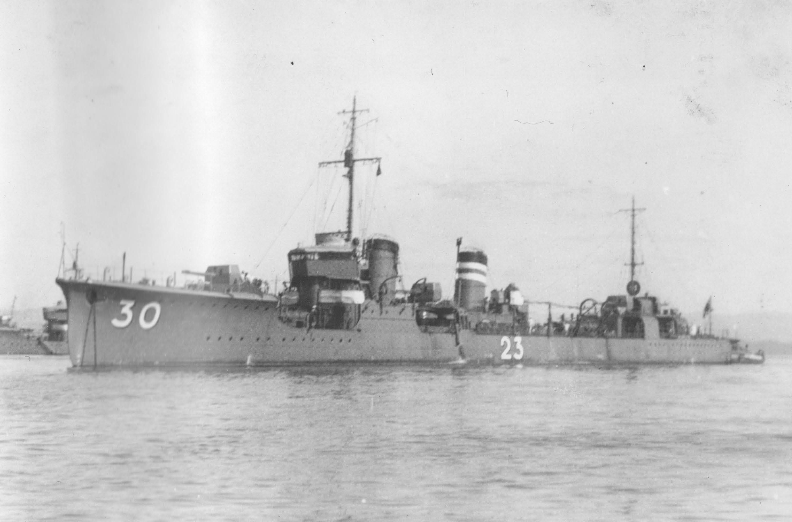 Imperial Japanese Navy destroyer Yayoi, the second Japanese destroyer to bear that name.